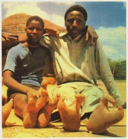 Vadoma people